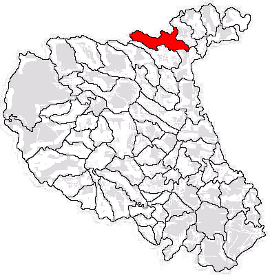 Limits of commune within Vrancea County